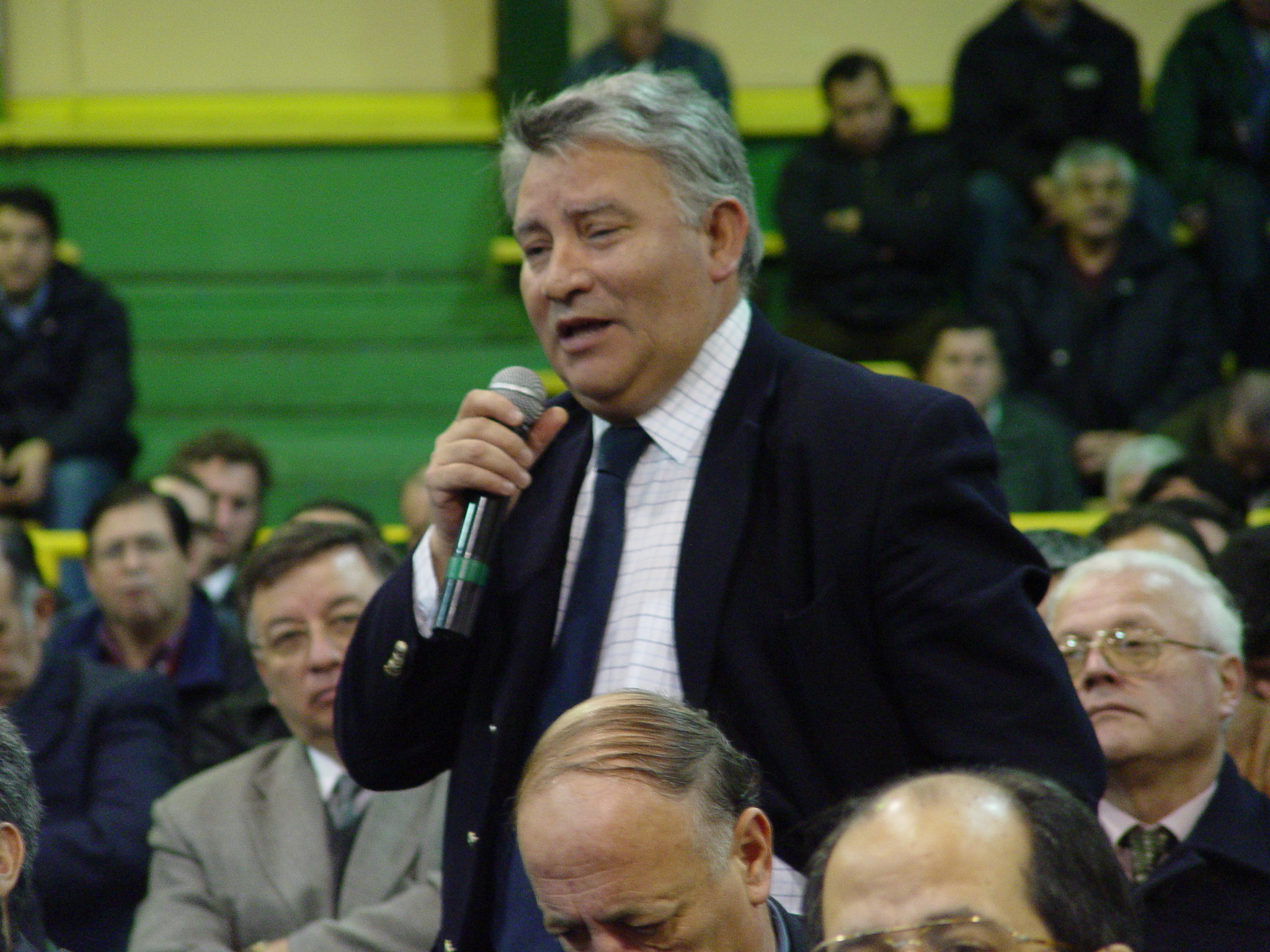 Jorge Matute Matute, chilean oil union